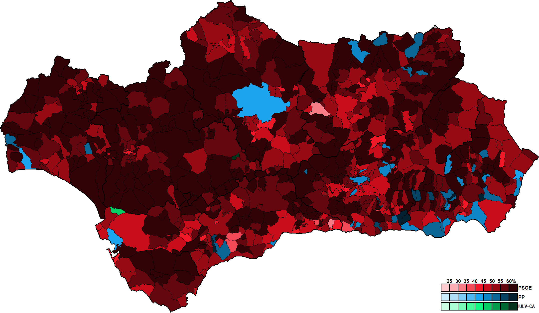 Most-voted party in Andalusia municipalities, showing vote share obtained, in the Spanish general election, 2004.